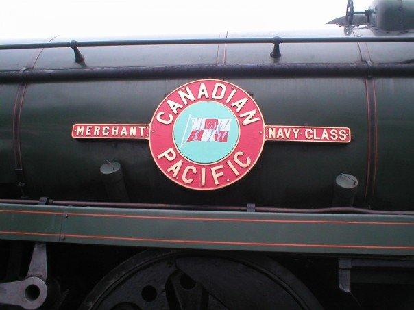 Canadian Pacific 35005, Toddington, 31st December 2006, Taken by P. Johnstone SR Merchant Navy Class article